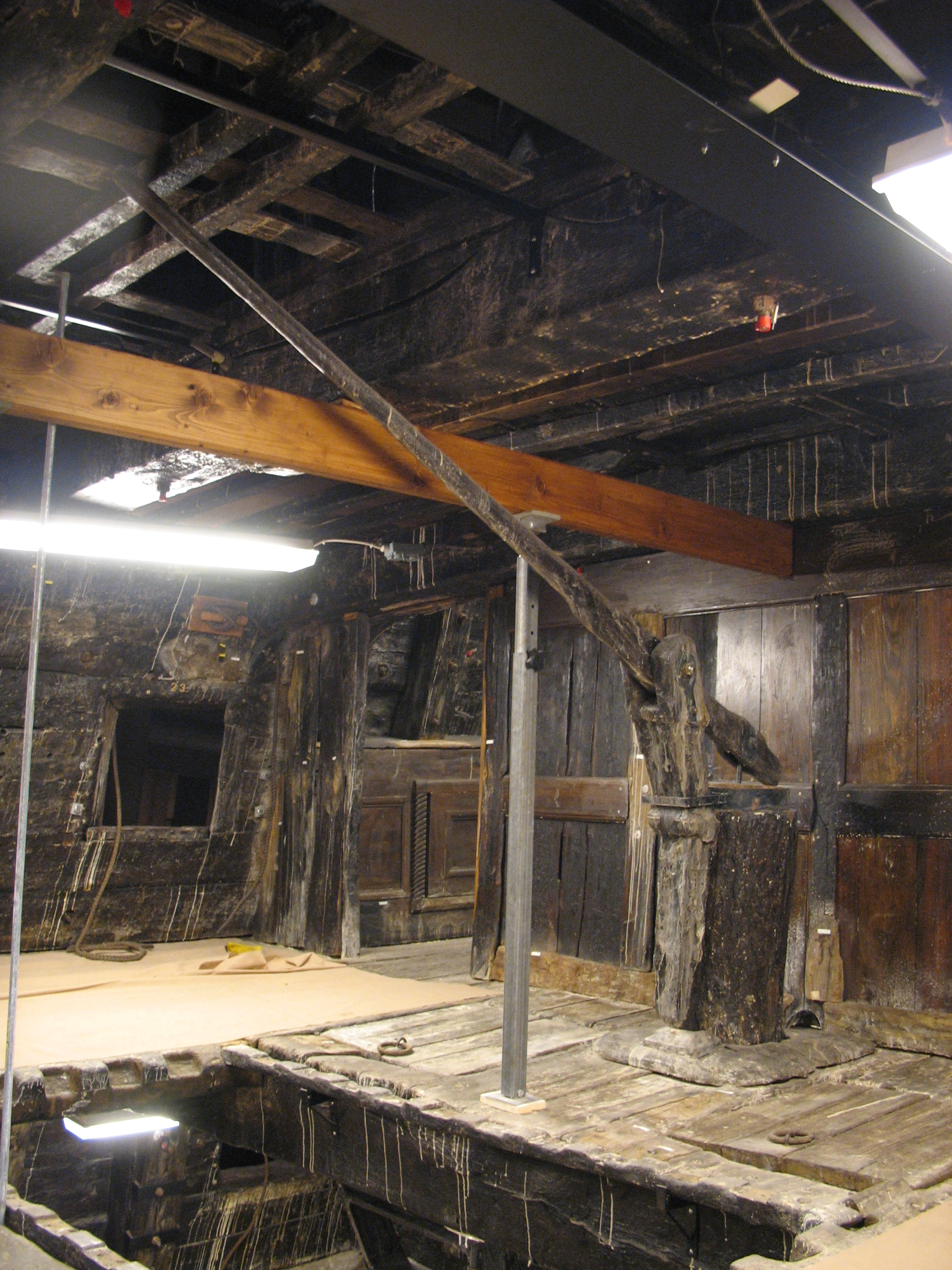 The aft bilge pump of the warship Vasa, displayed in the Vasa Museum in Stockholm, Sweden. Picture taken inside the ship on the upper gun deck looking toward starboard.